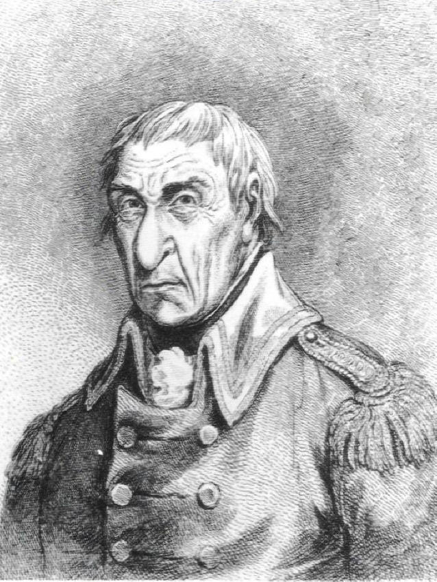 A portrait of James Napper Tandy